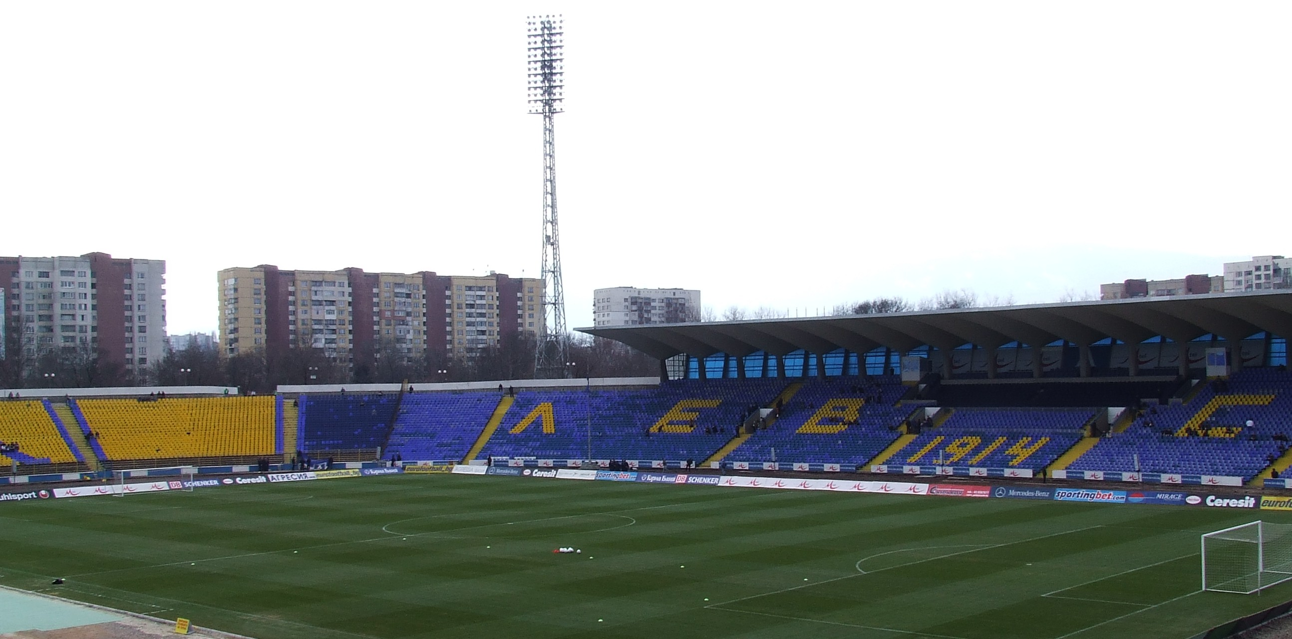 PFC Levski Sofia's Georgi Aspauhov Stadium in Sofia, Bulgaria